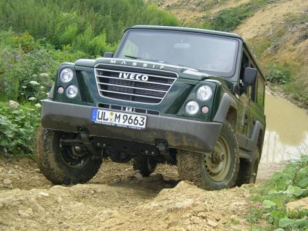 IVECO Massif Station Wagon am Berg, 2008.